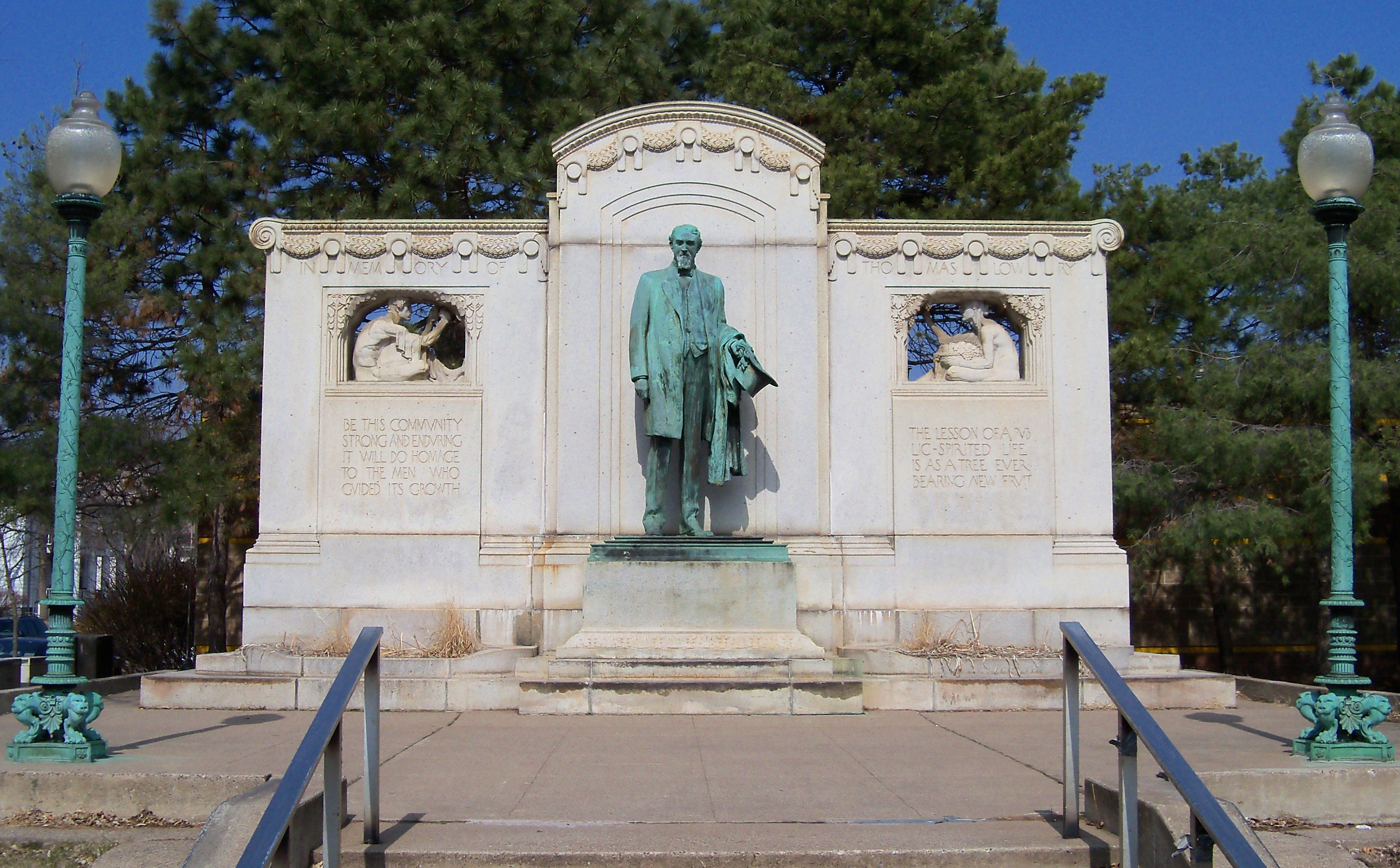 Lowry Monument in Smith Triangle